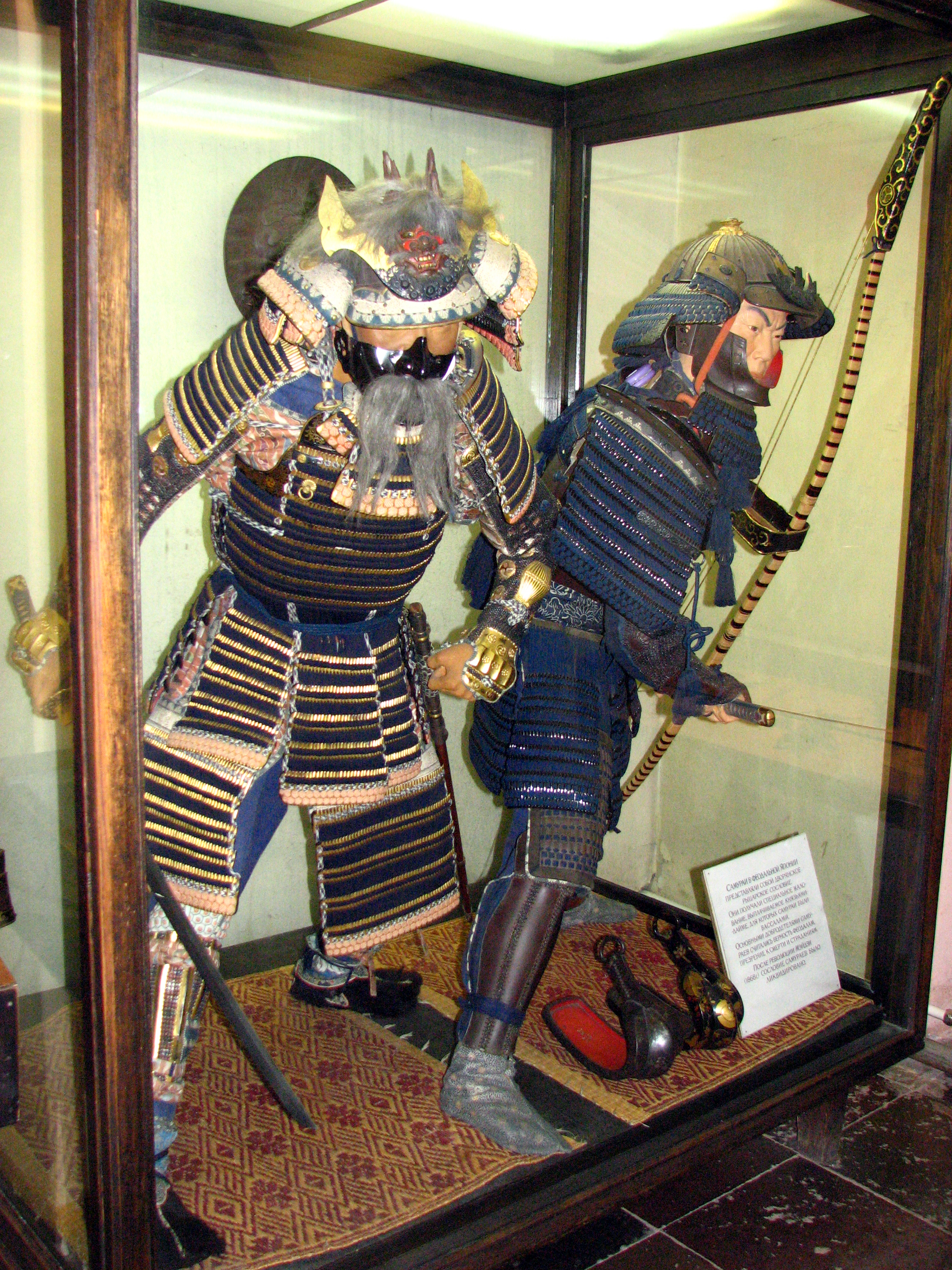 Saint Petersburg. Kunstkamera. Hall of Japan. Armour and arms of Samurais.